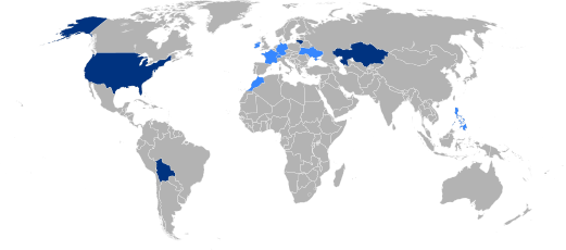 Operators of the EC145 Dark Blue = Military Light Blue = Civilian